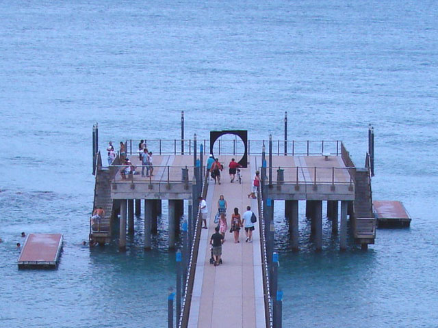 Pier Siren in the town of Francavilla al Mare, Abruzzo, Italy. Denis Guidone - Soglia - Spazi Evasi 06